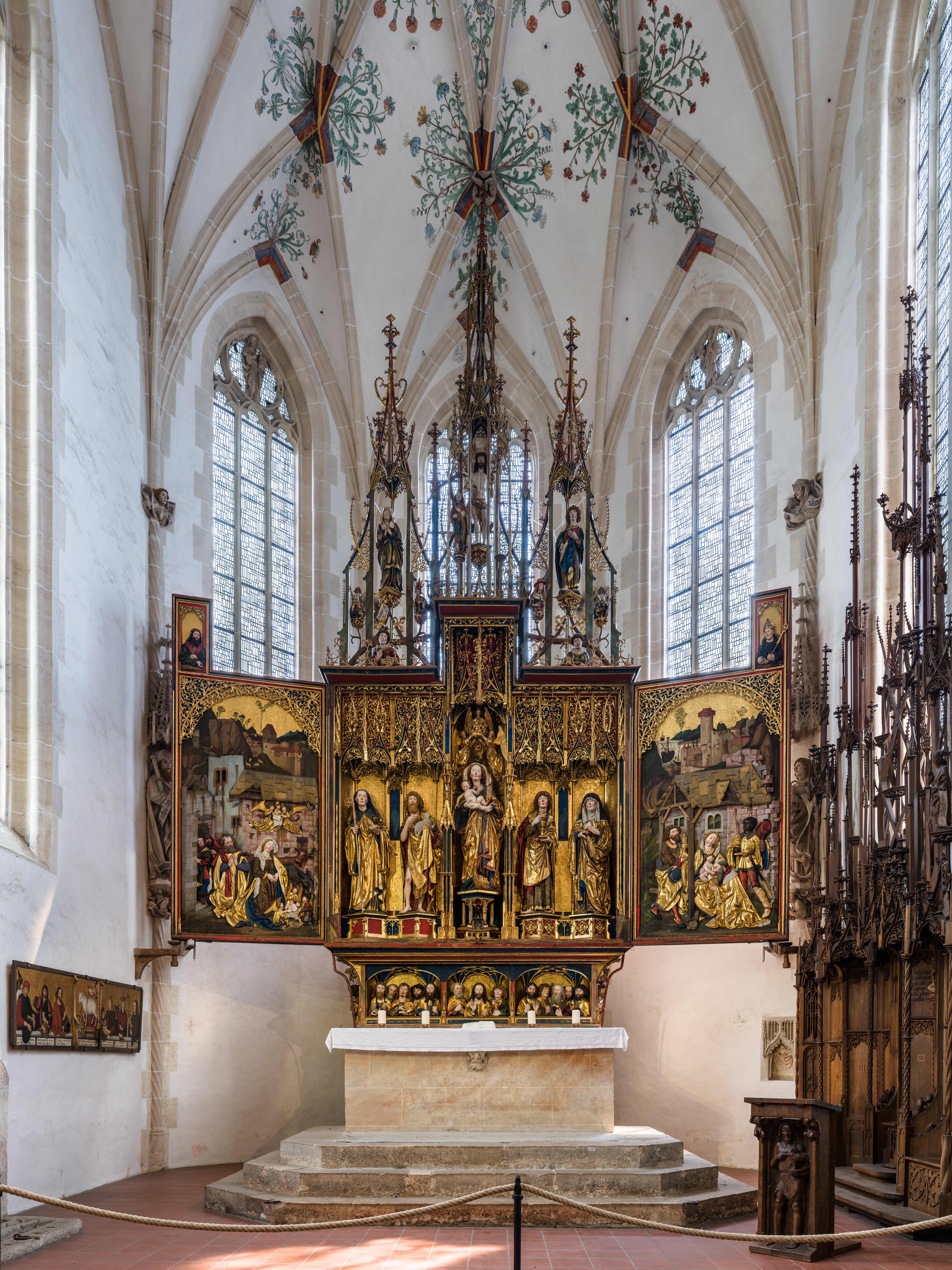 Winged altar at Blaubeuren Abbey church, Baden-Württemberg, Germany. Ulm Workshop (arrangement and ornaments by Jörg Syrlin the Younger, statues and reliefs by Michel Erhart), 1491–94.